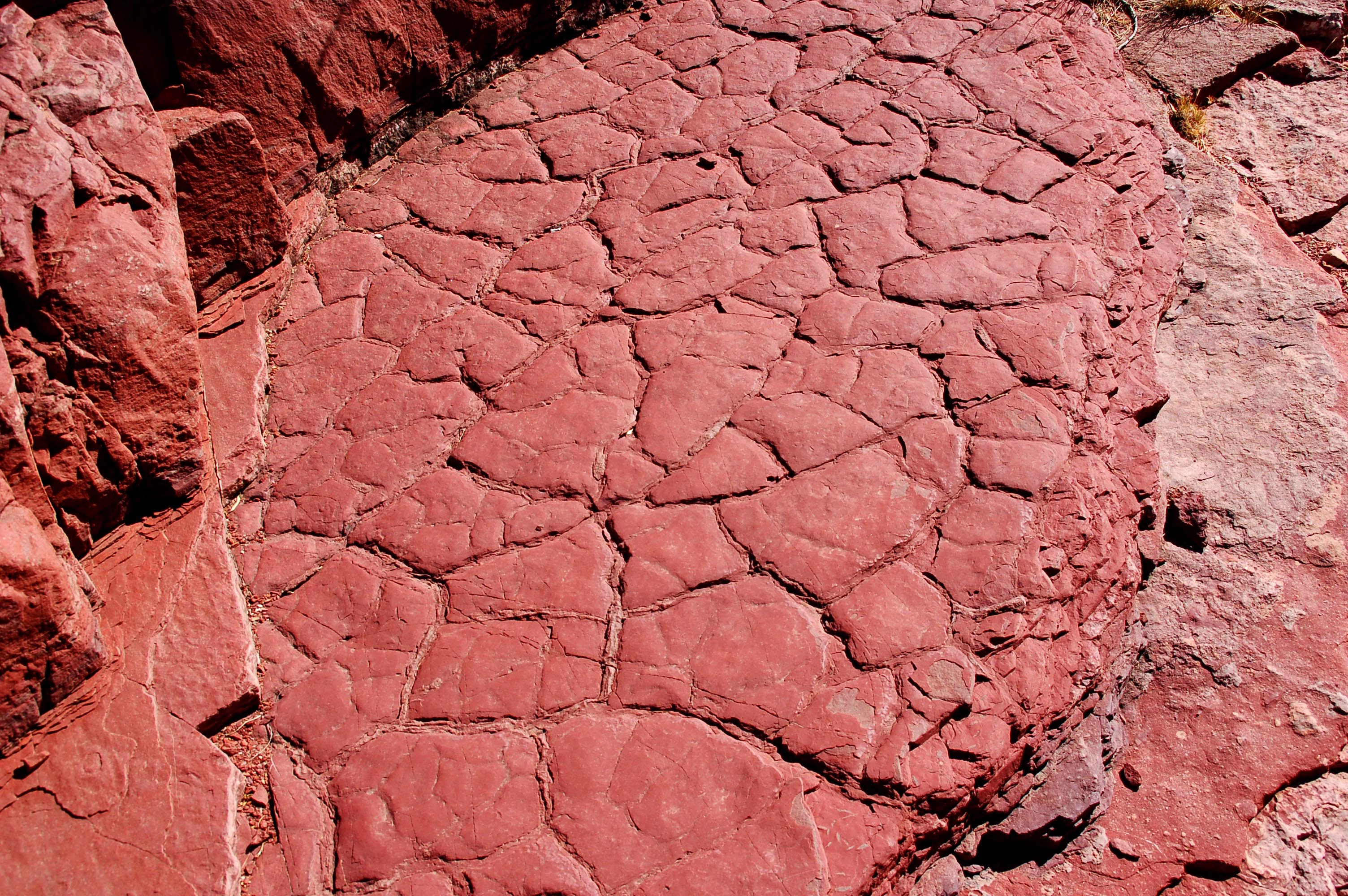 NPS Photo by: Carl Bowman Hakatai Shale Thickness: 445-985 feet This colorful formation contains layers of red sandstones, red shales, and blue to purple shales. As the sea level dropped, the environment slowly changed from a shallow sea to coastal mud flats. Mudcracks, raindrop impressions, and cross-beds are found in this layer.